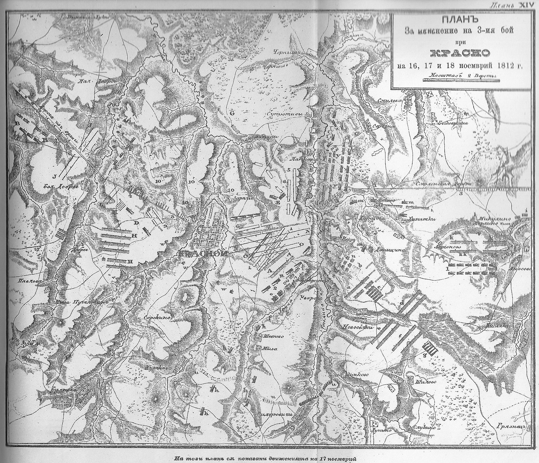 Map of the battle of Krasnoi in Russia, November 1812. The map is from the Bulgarian book "Политическия и Военния животъ на Наполеона". This book obviously is a map-collection made from a Russian Military Academy for use to educate and train Bulgarian officers. Because of the old Cyrillic alphabet and of the deterioration of Bulgarian-Russian military relations since the Balkan wars it must have been published before 1912. The author is either anonymous or the Russian government.